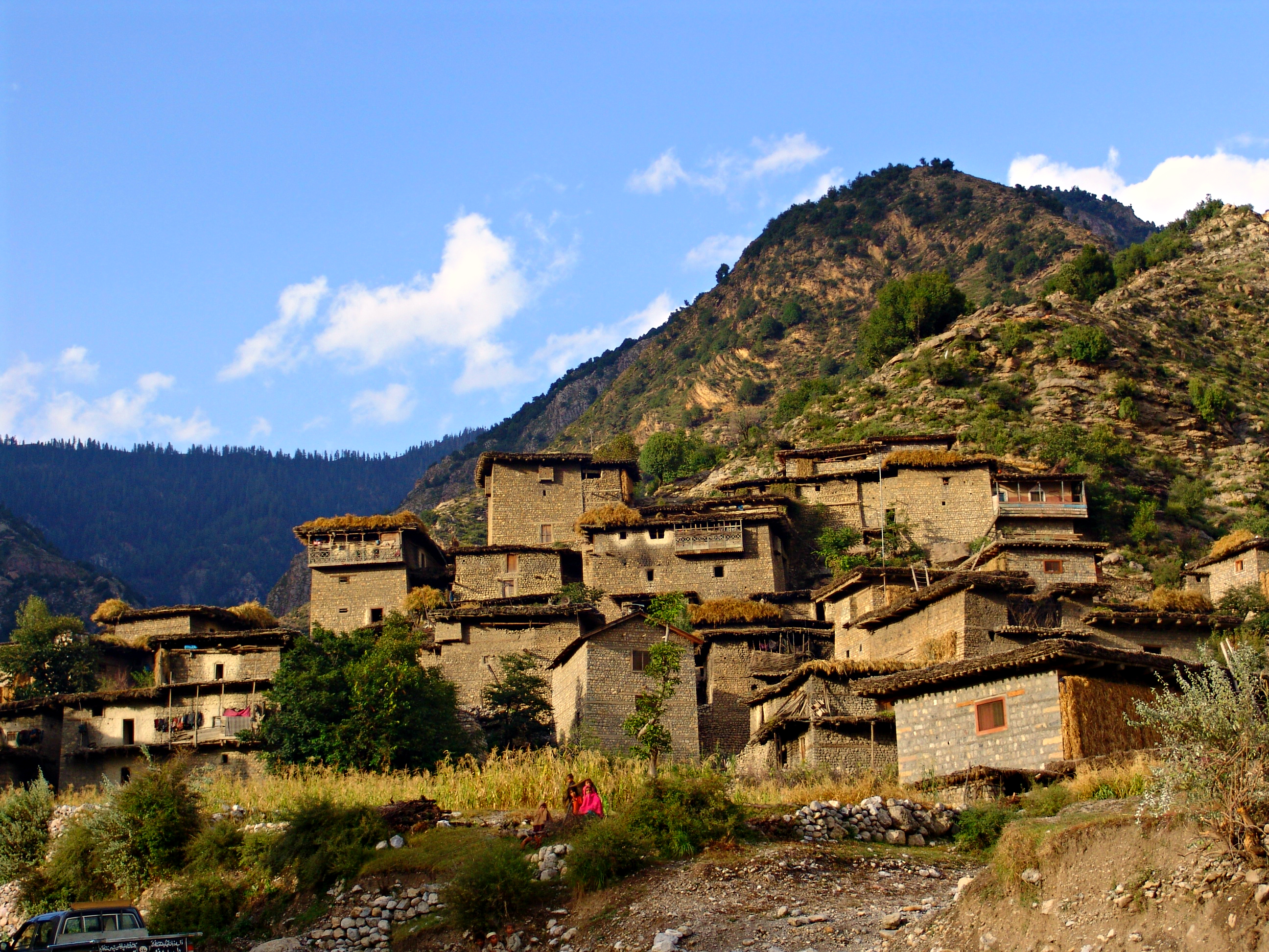 Tari Mangal is a small city on the Pakistani-Afghan border near Safēd Kōh and is part of the Federally Administered Tribal Areas, Pakistan. Tari Mangal is 23 km from Parachinar and 0.8 km from Ali Mangal Post. The Pashtun Tribe Mangal have been living in Tari Mangal for more than 600 years.